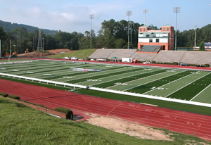 author:diezba; source:personal photos